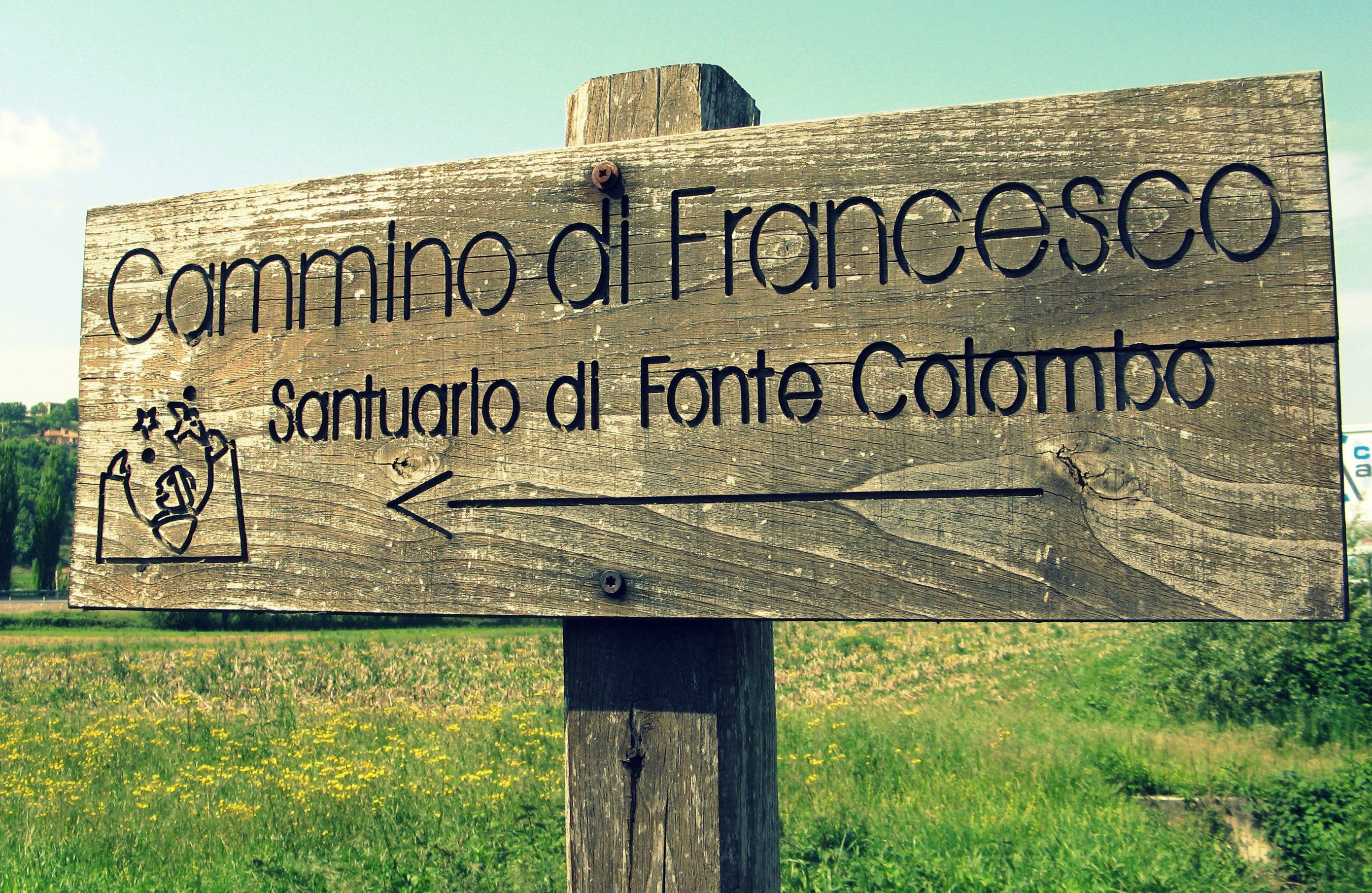 Cammino di Francesco in the Rieti Valley (Province of Rieti, Lazio, Italy)